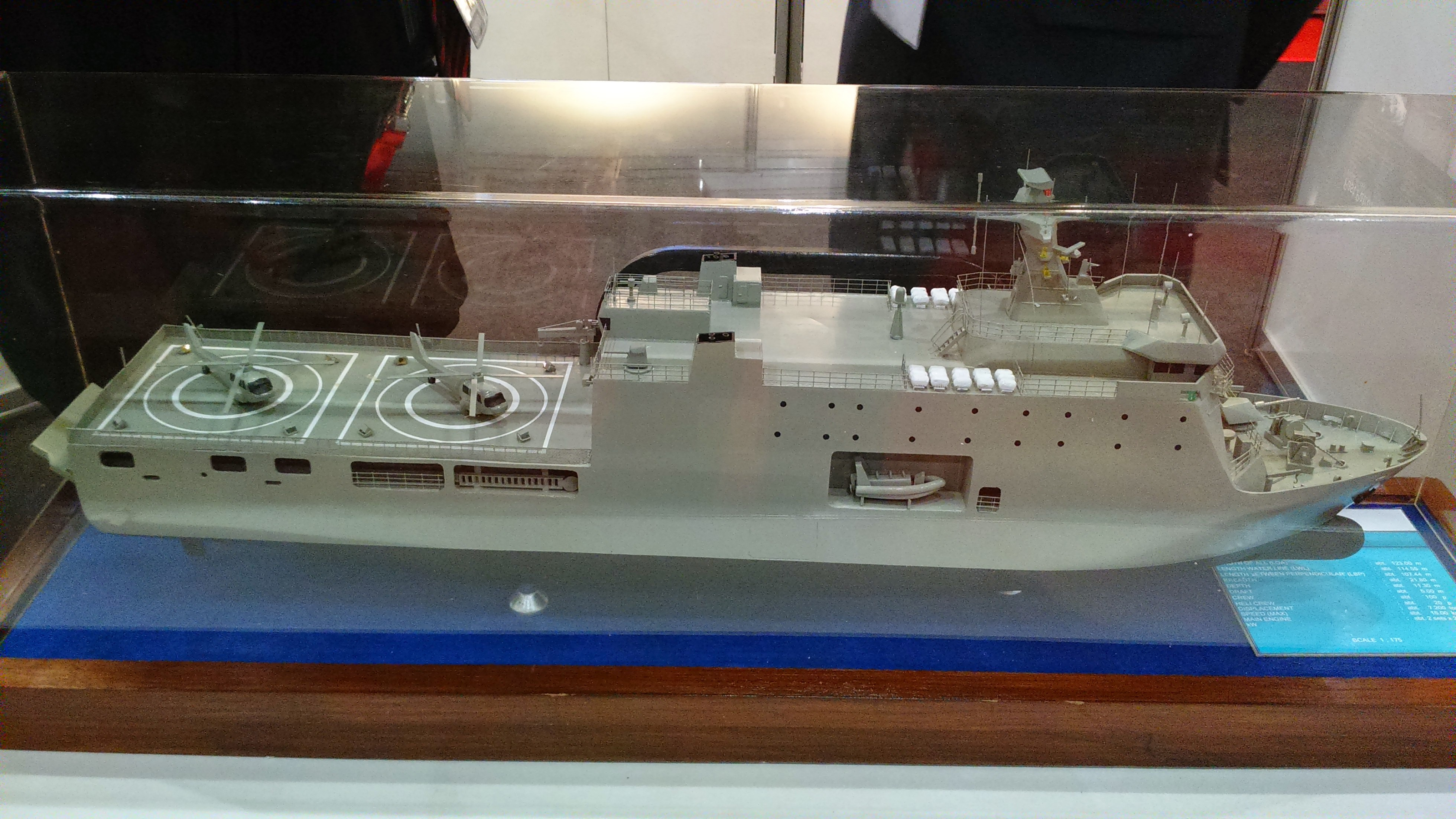 A model of PT PAL's Strategic Sealift Vessel (SSV) for the Philippine Navy, taken during the ADAS 2014 Exhibit at the World Trade Center in Pasay, Manila, Philippines.